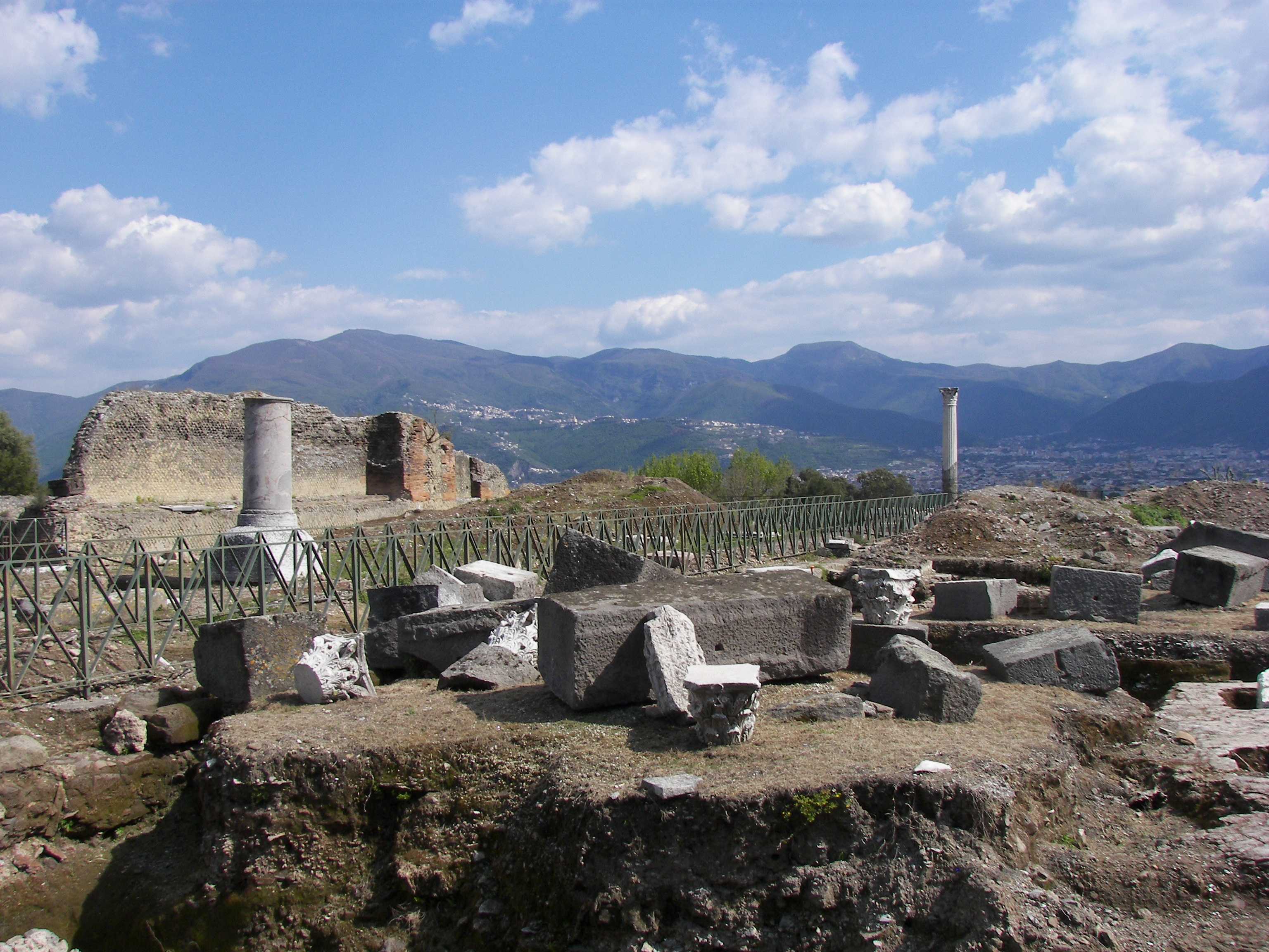 Temple of Venus in Pompeii.